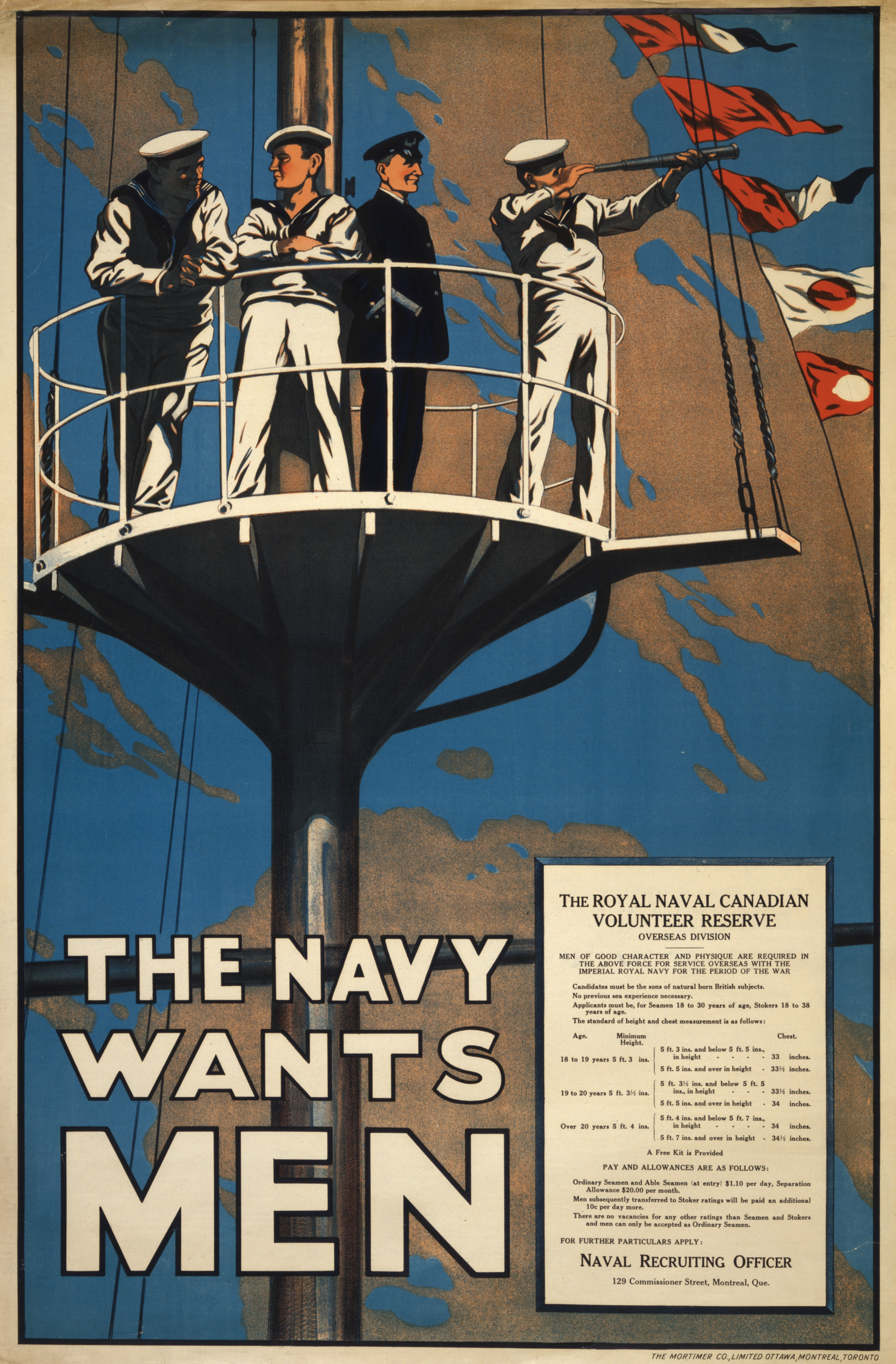 1915 recruiting poster for the Royal Naval Canadian Volunteer Reserve, Montreal. The RNCVR supplied men to both the Royal Canadian Navy and the Royal Naby during World War I.